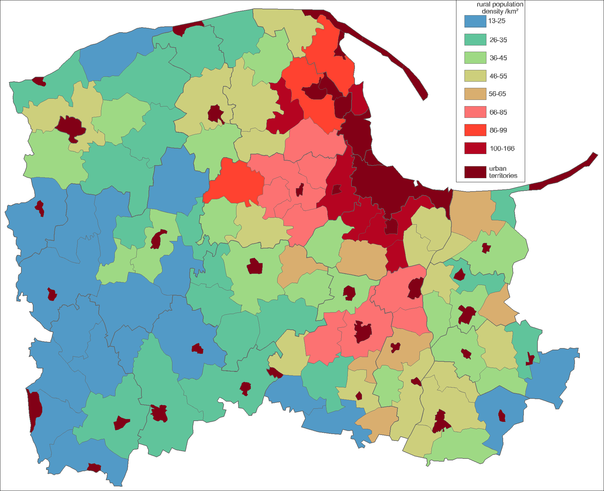 rural population density og Pomeranian Voivodship Poland